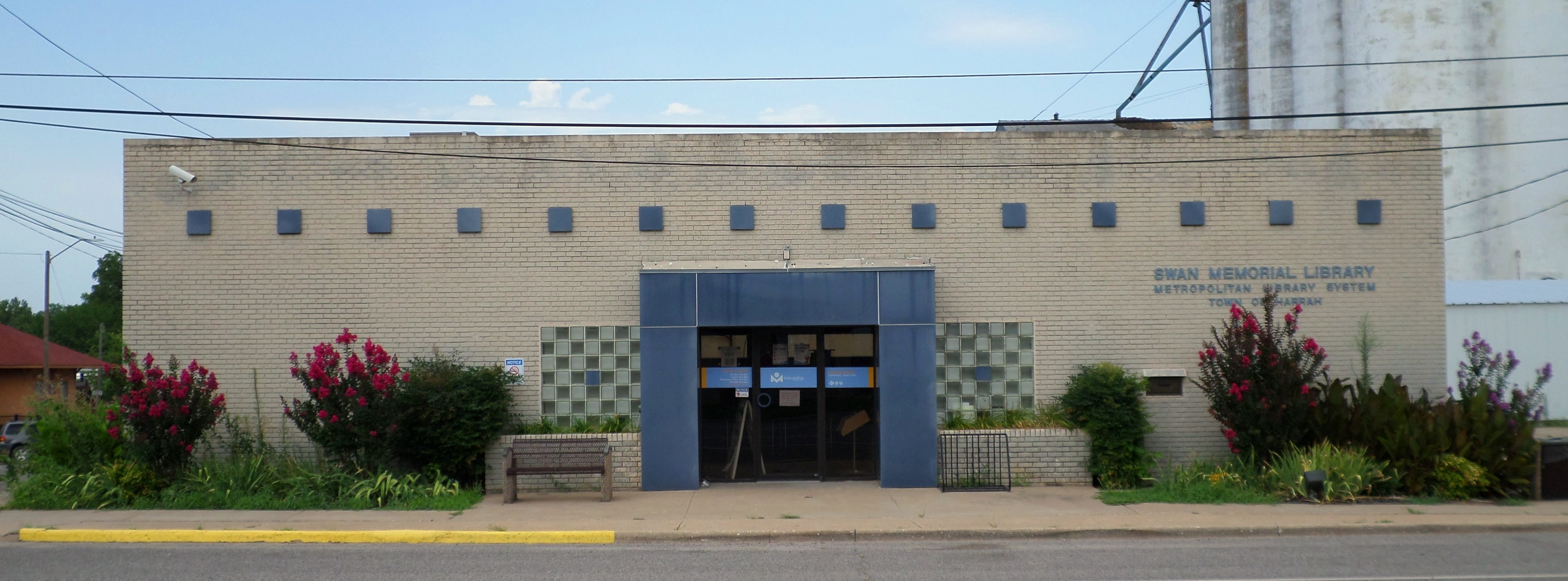 Swan Memorial Library, also called the Harrah Library, located at 1930 Church Ave., Harrah, OK.